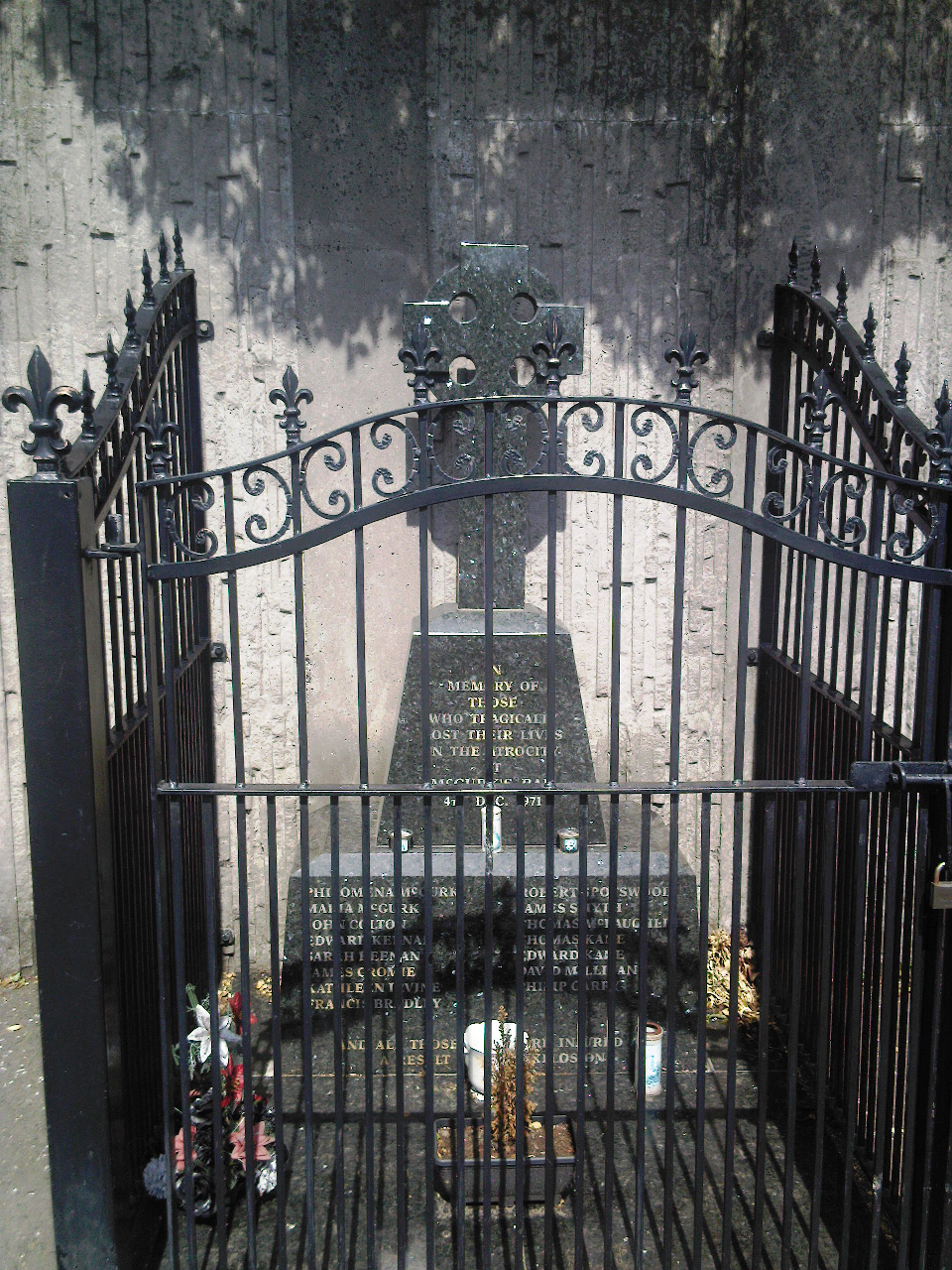 Cross commemorating the victims of the 1971 McGurk's bar bombing, Great George Street, Belfast